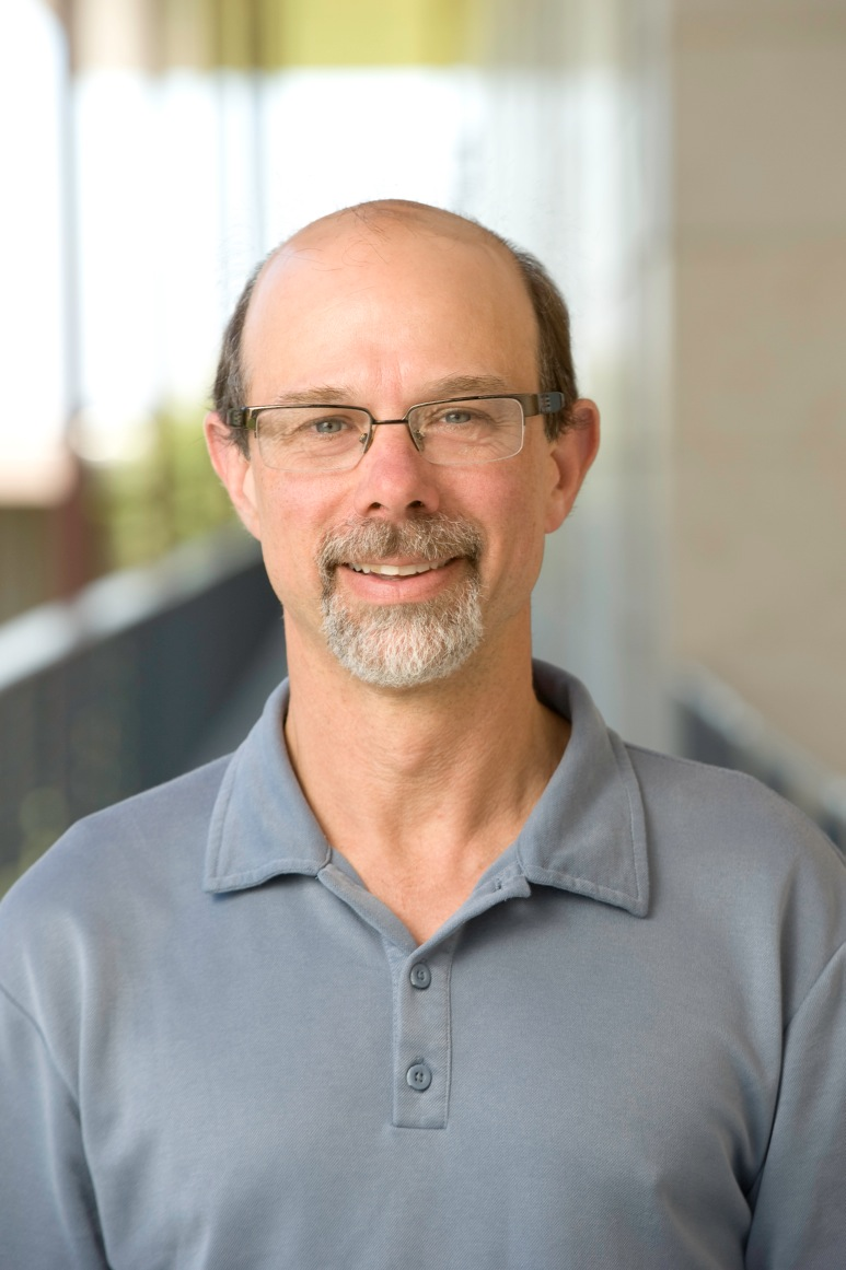 A photo of Scott L. Delp, taken in 2010. His ethnicity is caucasian. He is wearing a light great polo shirt. He wears glasses, has short brown hair and a gray goatee.